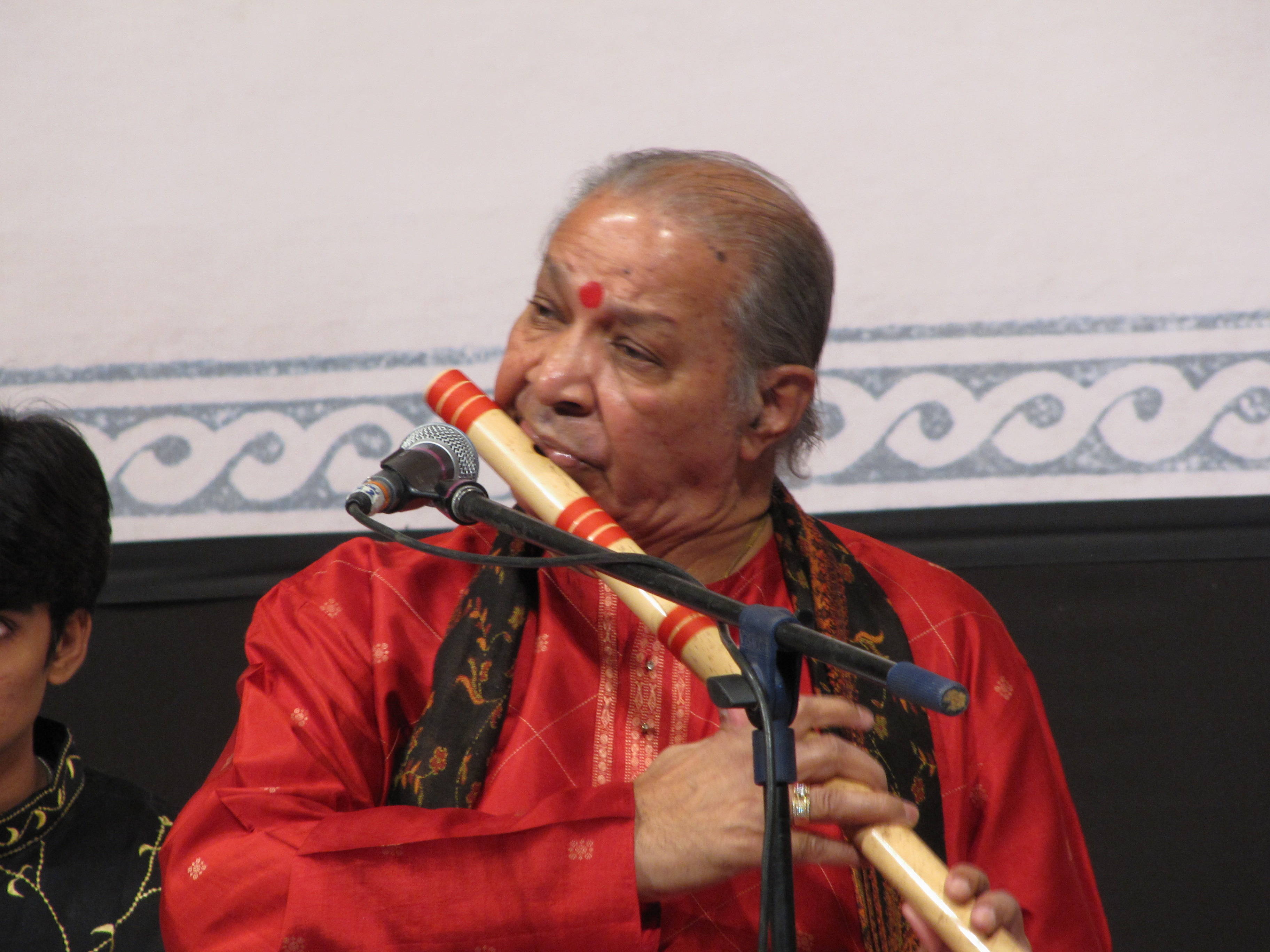 Hariprasad Chaurasia performing at Chowdiah Memorial Hall, Bangalore on the occasion of ITC Sangeet Sammelan 2010